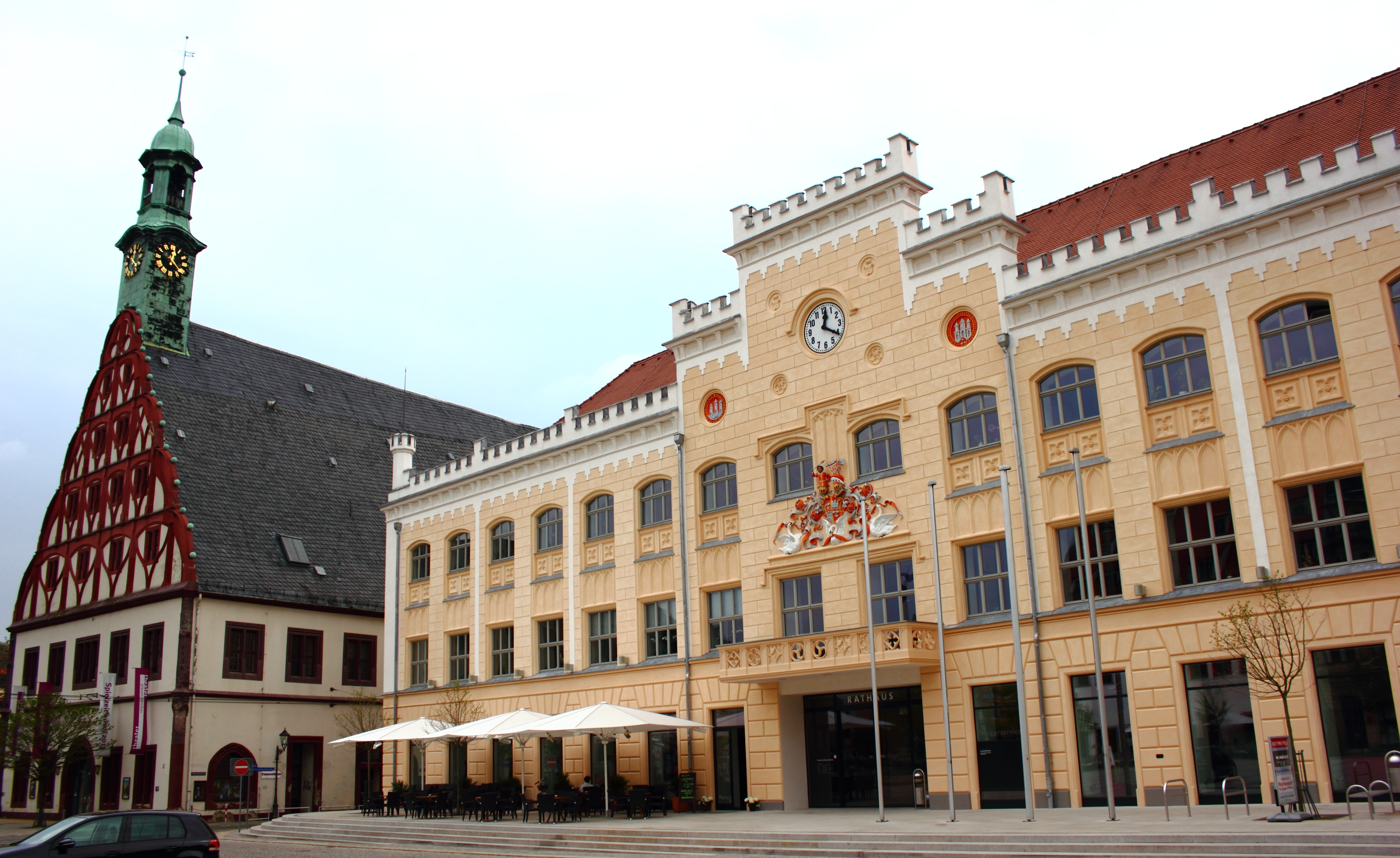 Townhall (right) and theatre (left) of Zwickau, Saxony